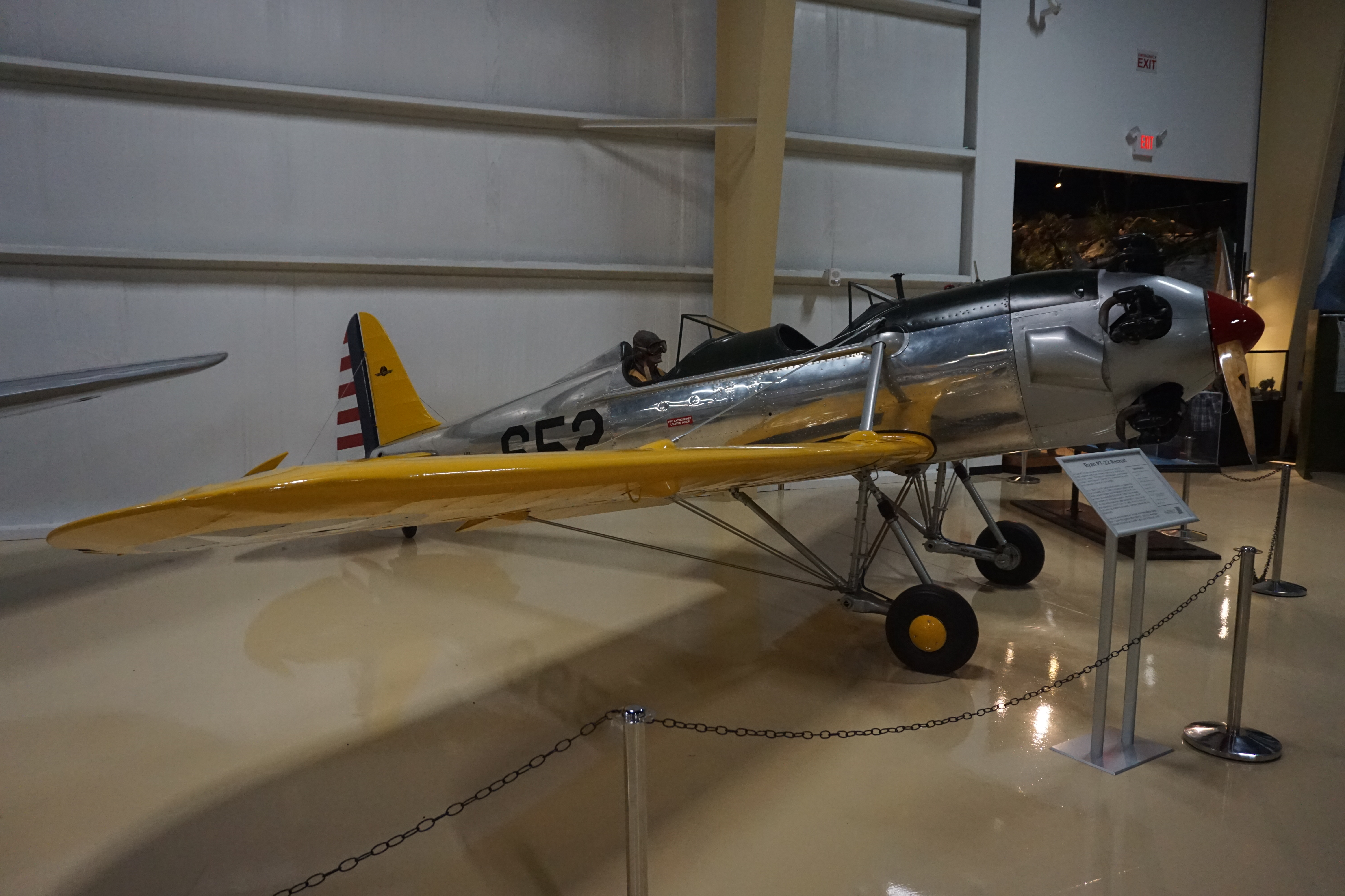 A Ryan PT-22 Recruit on display at the Air Zoo at Kalamazoo/Battle Creek International Airport in Portage, Michigan (United States).